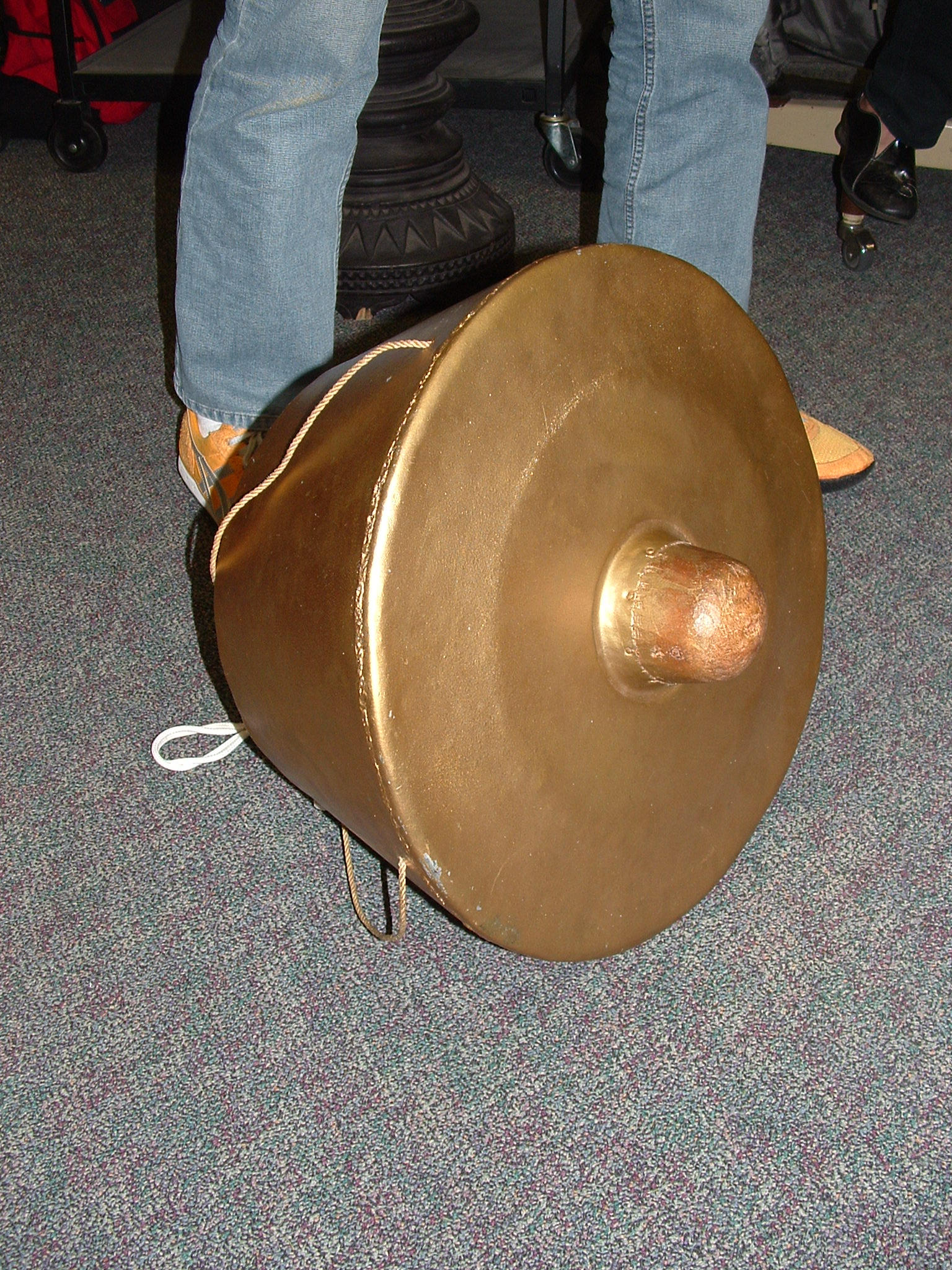 One of the two Philippine vertically hanged, wide-rimmed gongs known as the agung used as a supportive/accompanying instrument in the kulintang ensemble.